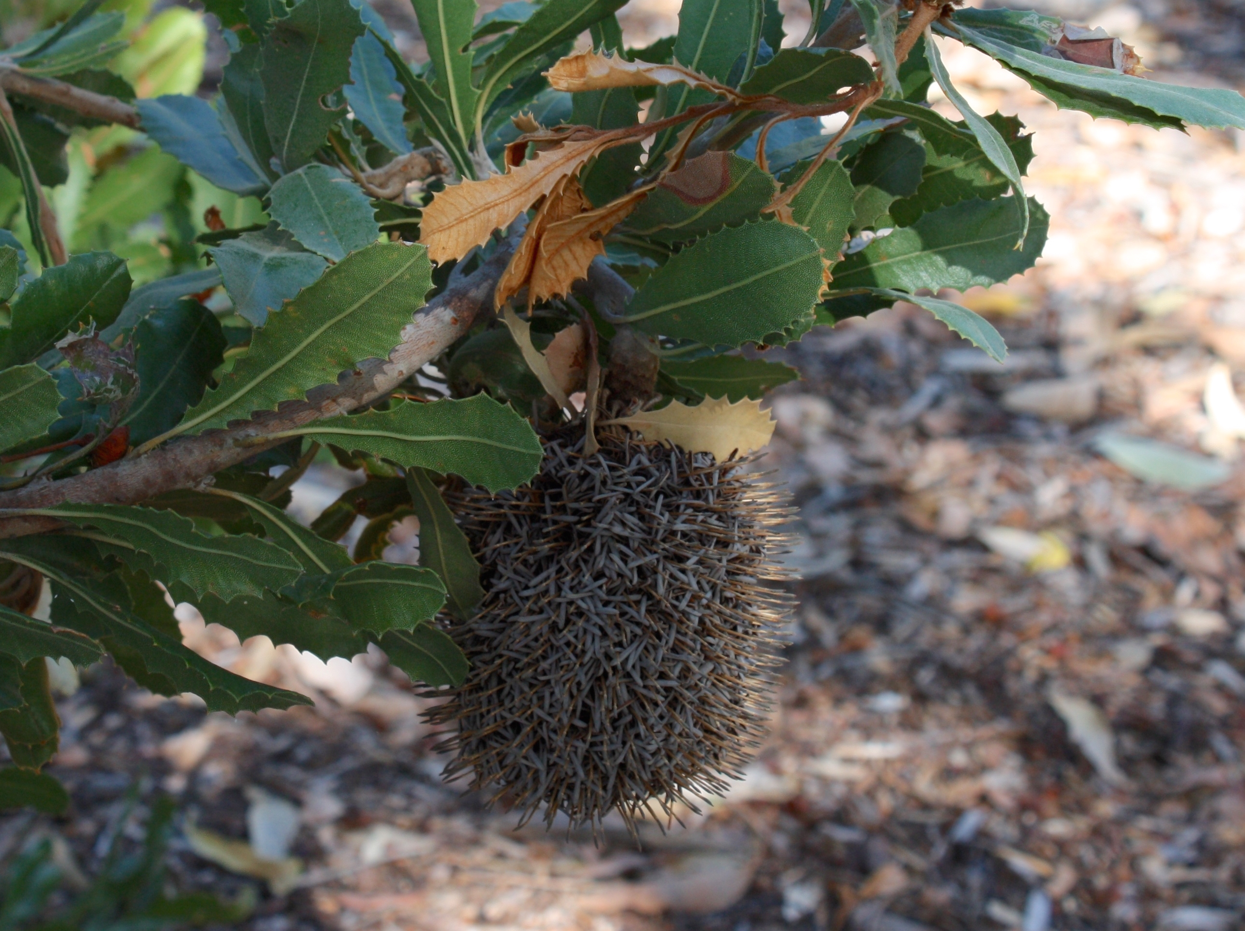 Old inflorescence and foliage of Banksia lemanniana, in cultivation, Kings Park, Perth, Western Australia